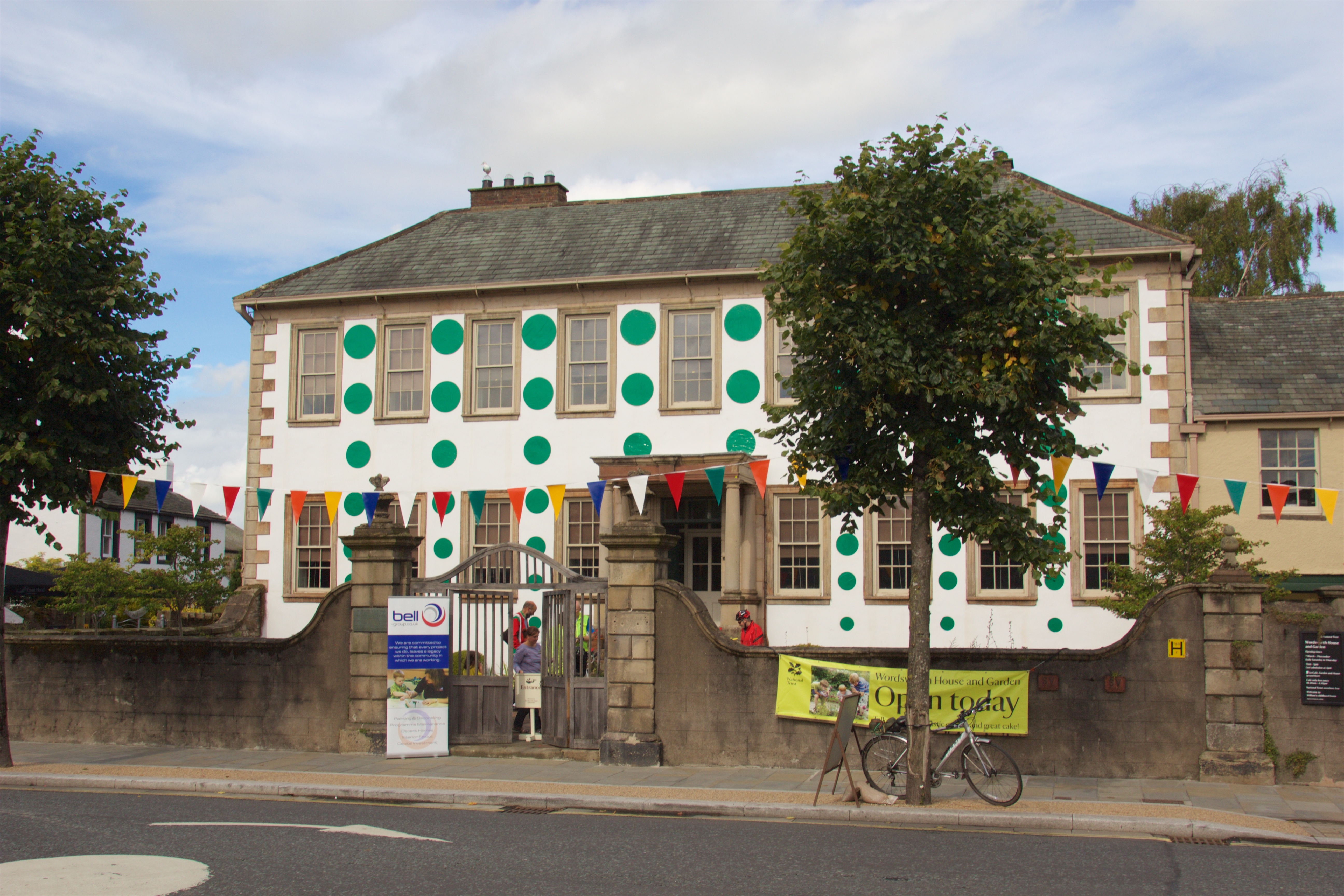 Wordsworth House, United Kingdom